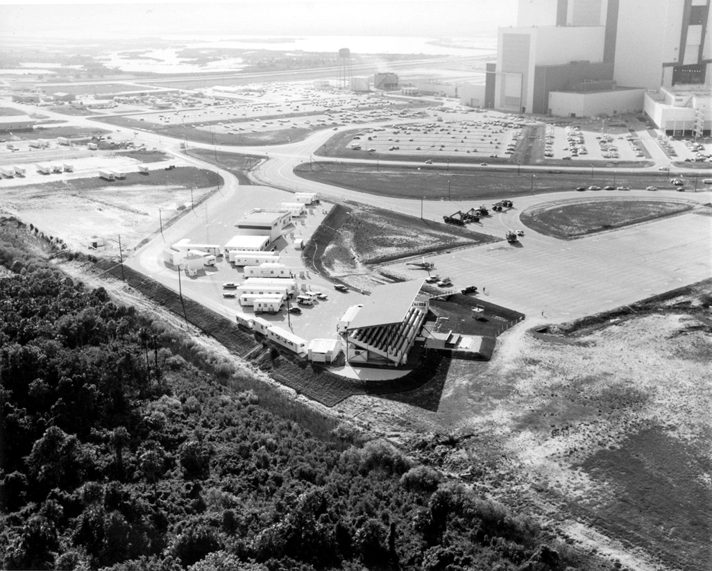 Black-and-white aerial view of the Launch Complex 39 Press Site looking north on May 26, 1969